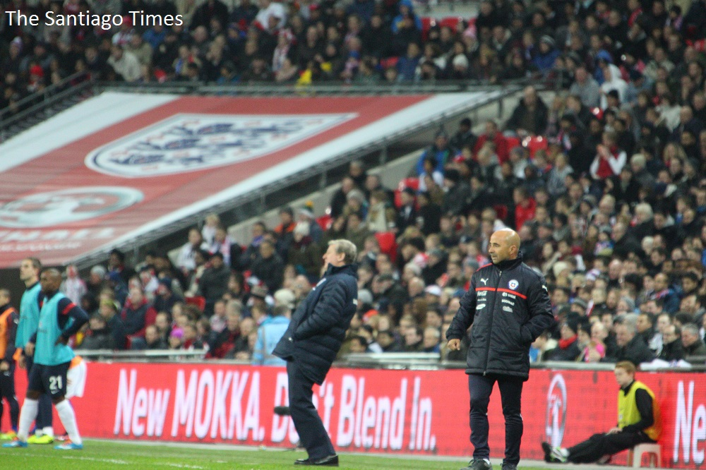 Chile 2-0 England Nov. 15, 2013.